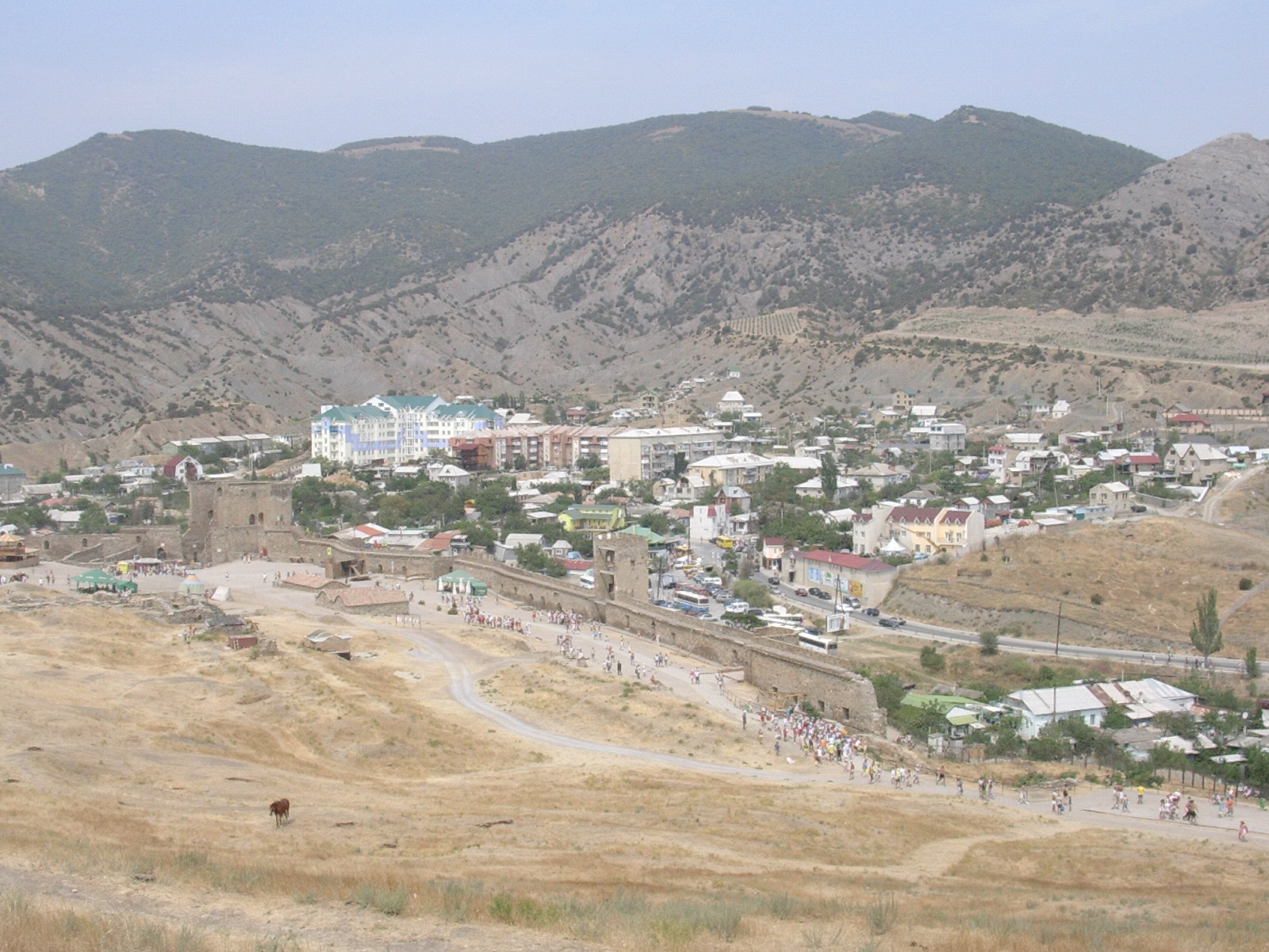 The view on west part of Sudak and lower walls of the Genoese fortress from upper part of the fortress, Crimea